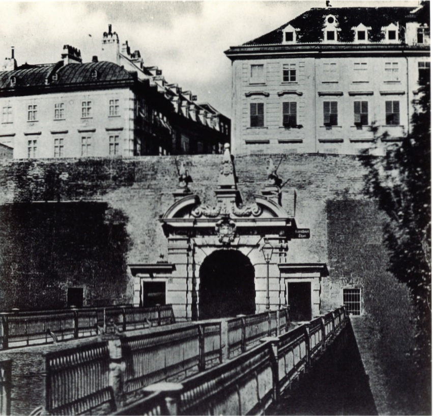 The old Kärntnertor (carinthian portal) was part of vienna's city wall